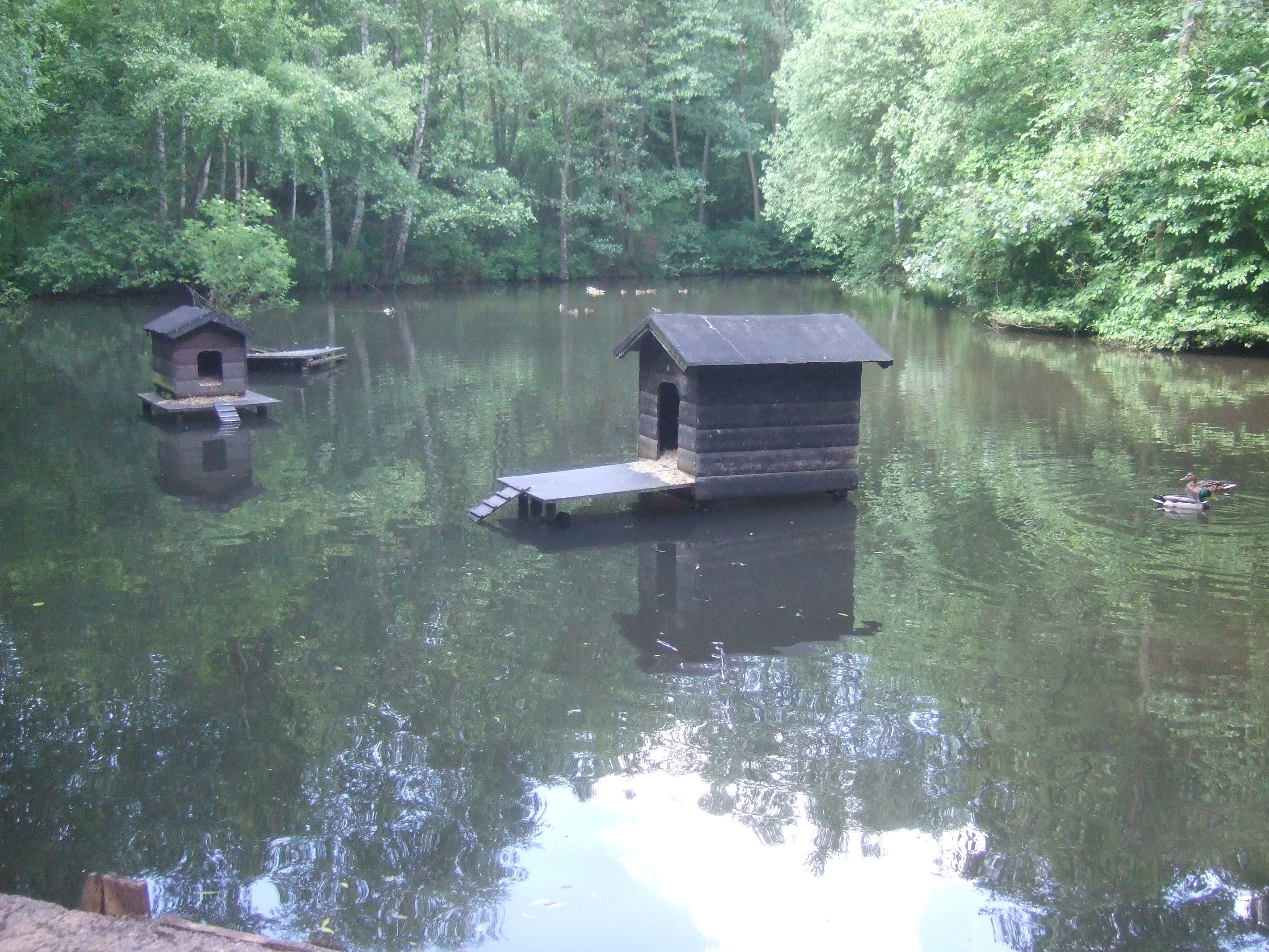 Schweich, Biotop